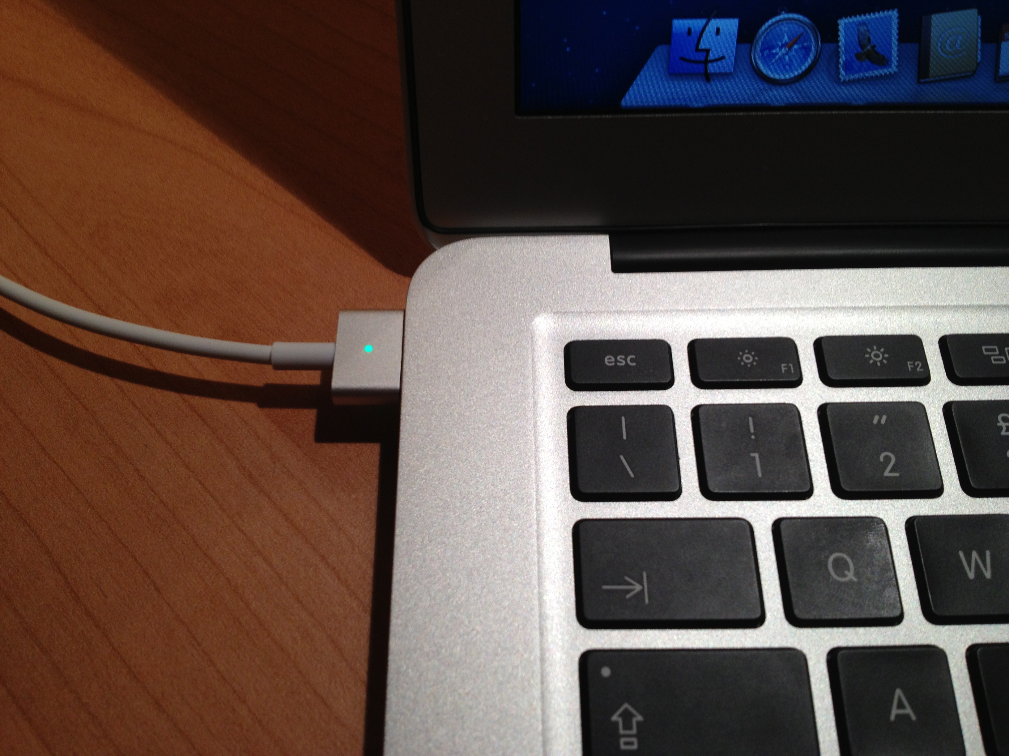 MagSafe 2 connector in a mid-2012 MacBook Air